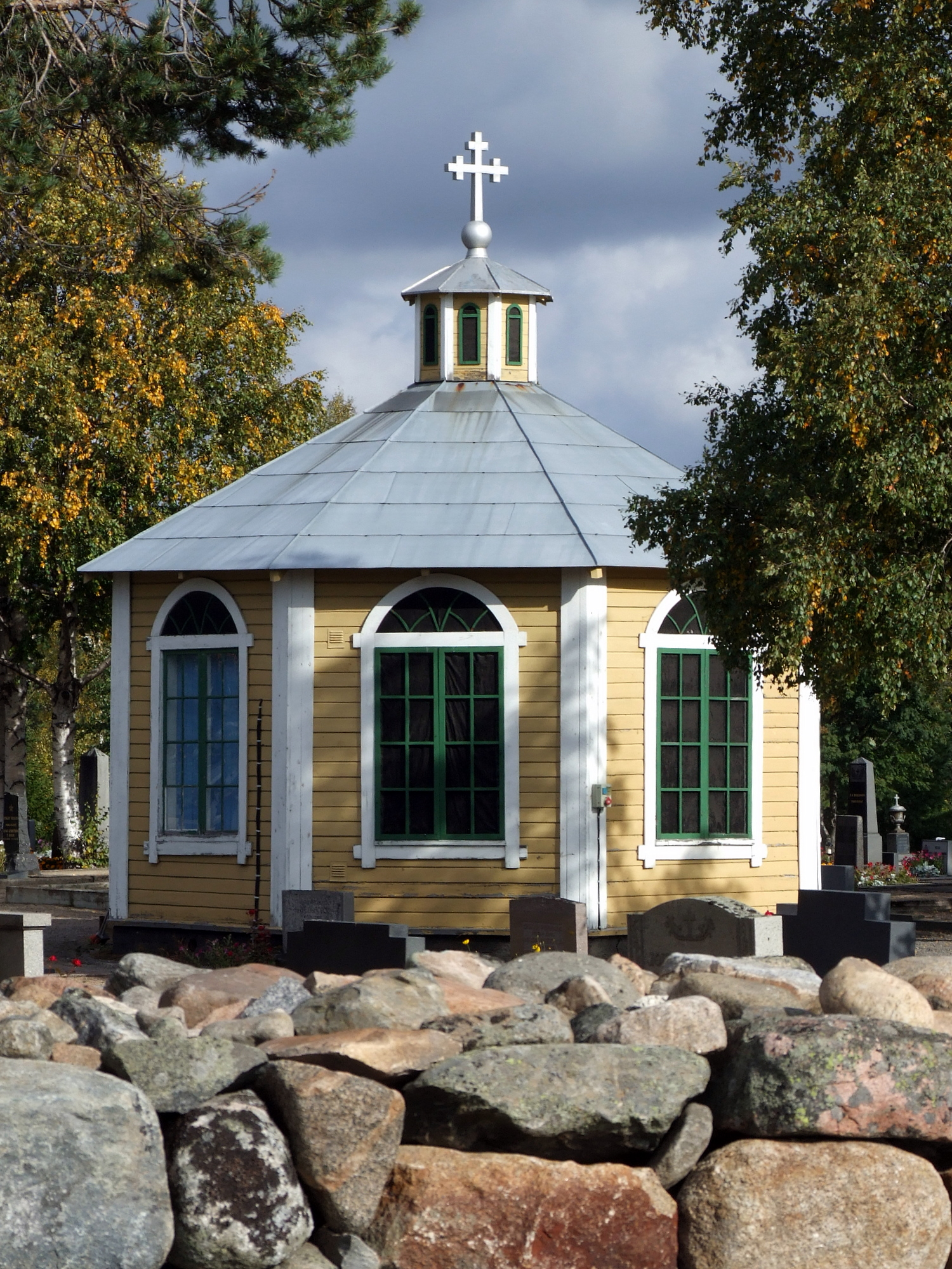 Old morgue in the cemetery of Haparanda, Sweden